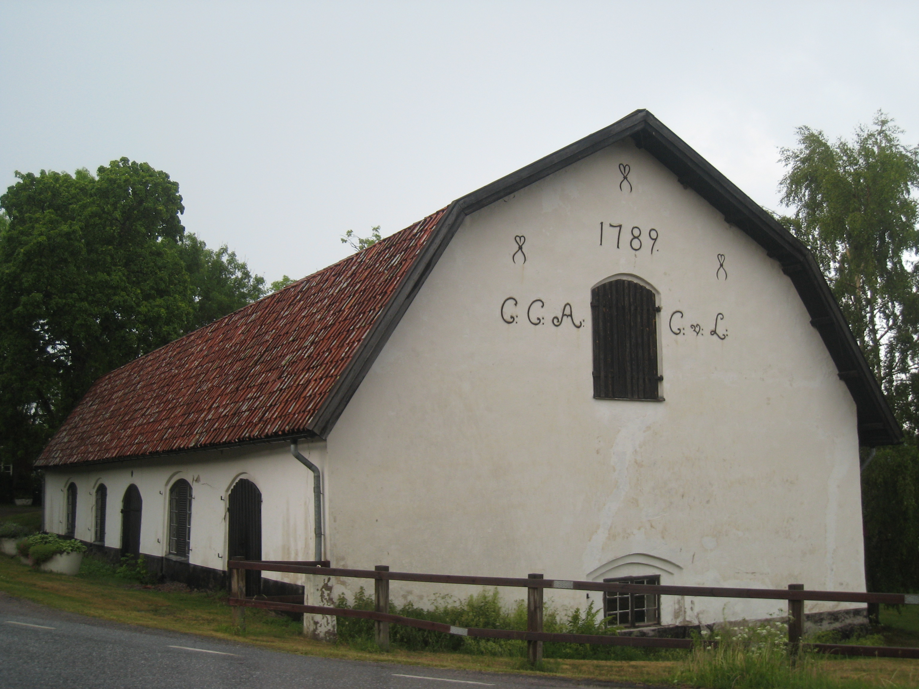 Ortala historic iron factory